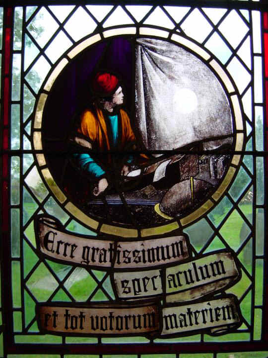 Stained glass roundel memorial to Jeremiah Horrocks making the first observation and recording of a transit of Venus in 1639. The Latin reads "Ecce gratissimum spectaculum et tot votorum materiem": "oh, most grateful spectacle, the realization of so many ardent desires". It is taken from Horrocks's report of the transit (translation by G. Napier Clark, Sketch of the Life and Works of Rev. Jeremiah Horrox, Journal of the Royal Astronomical Society of Canada, Vol. 10, pp. 523–535, 1916)